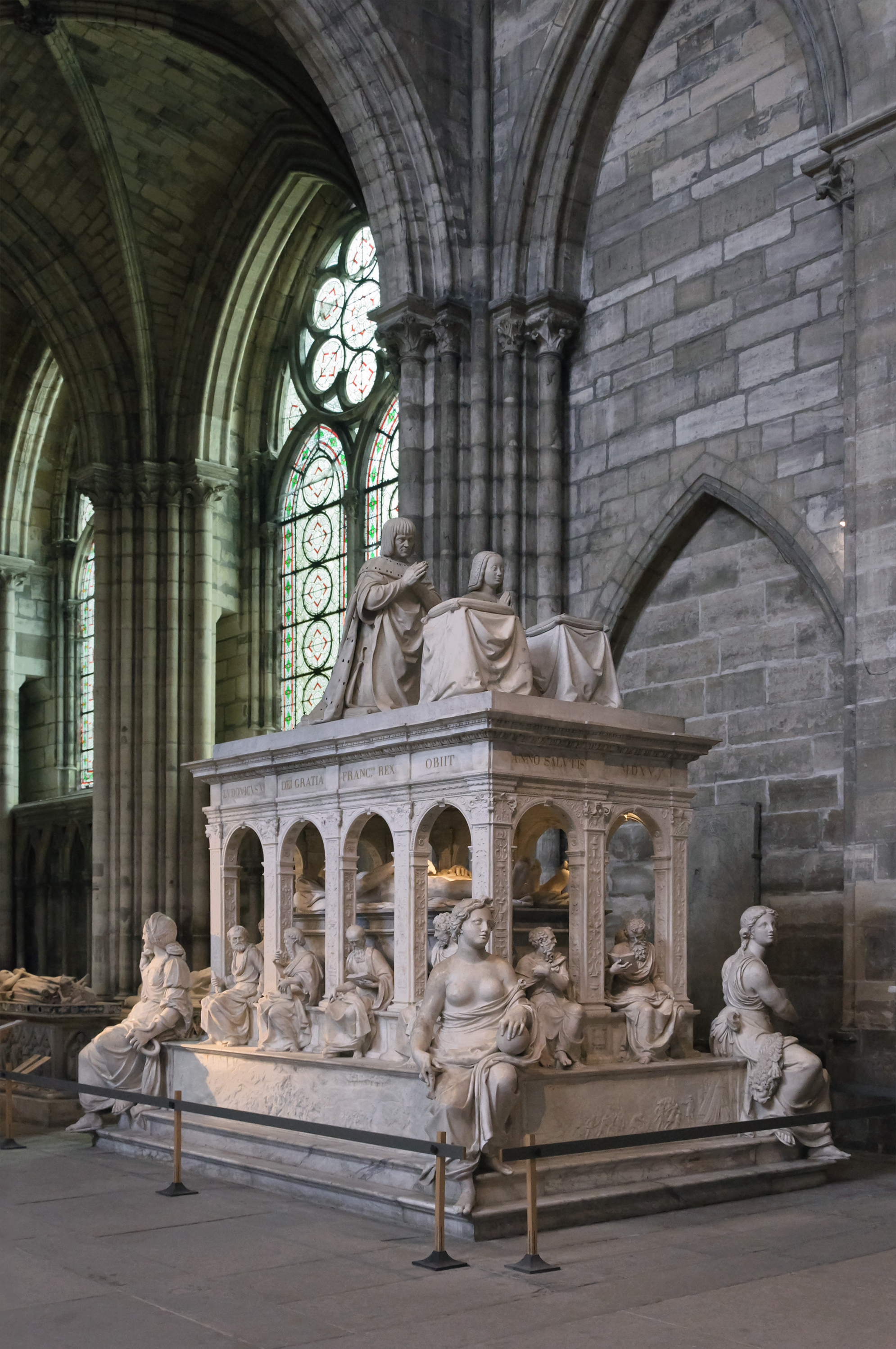 The tomb of Louis XII and Anne of Brittany (16th-century) in the basilica of St Denis, France.